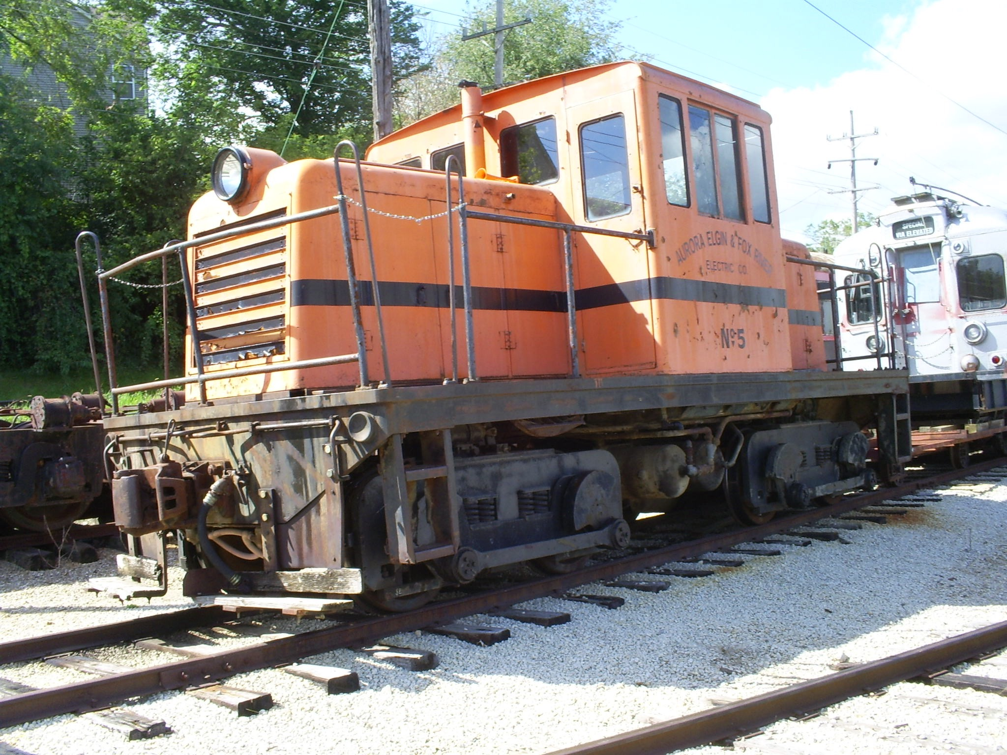 Aurora Elgin & Fox River Electric. Company #5 at Fox River Trolley Museum